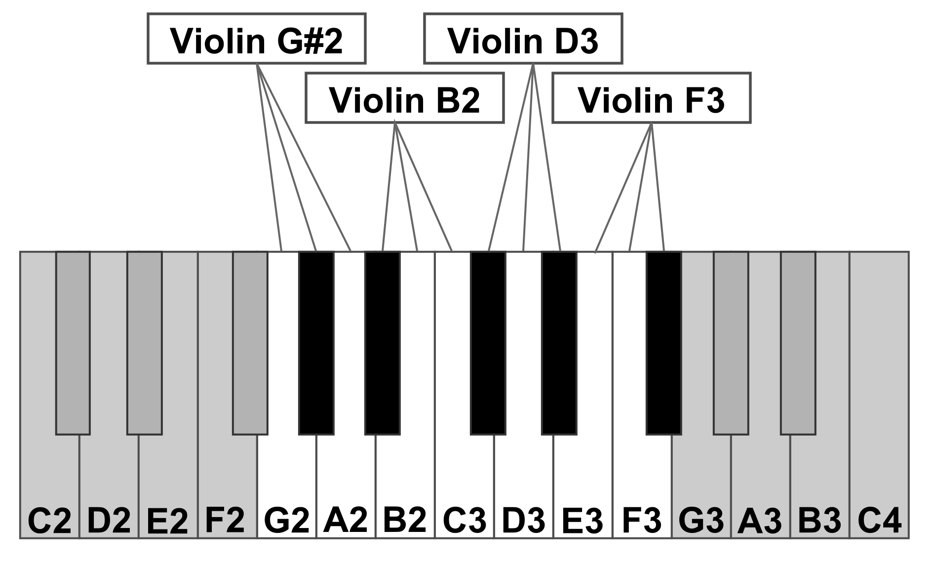 Image caption (quoted from "Sampler (musical instrument)" at English Wikipedia) Fig. 1: An example of how multiple samples can be arranged across a keyboard range. In this example, four different recordings of a violin are distributed across 12 notes. Each sample will play back at three different pitch values original comment "I generated this image myself"